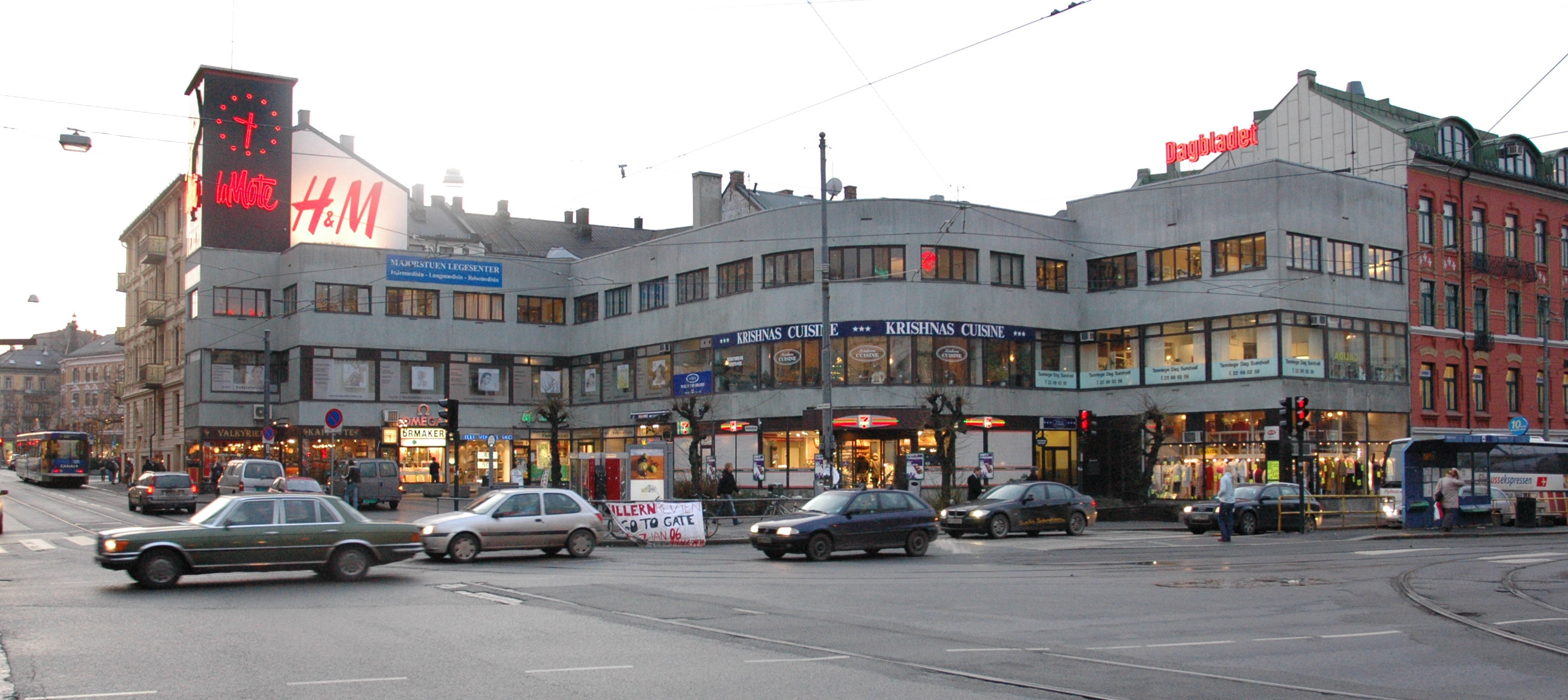 The functionalistic building Vinkelgården, ca. 1930. Kirkeveien 59 / Vinkelplassen.